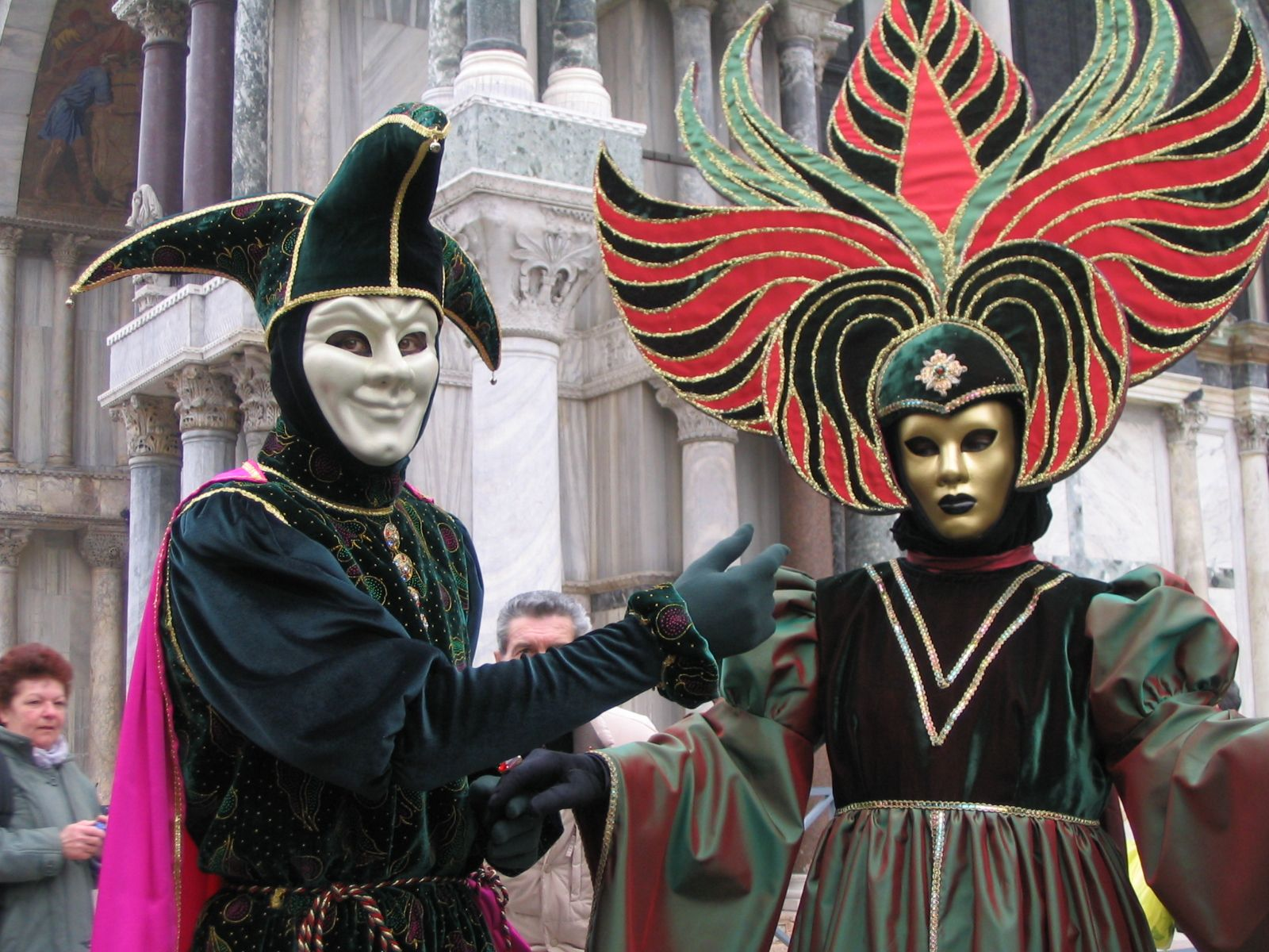 Batch Photo By wanblee =